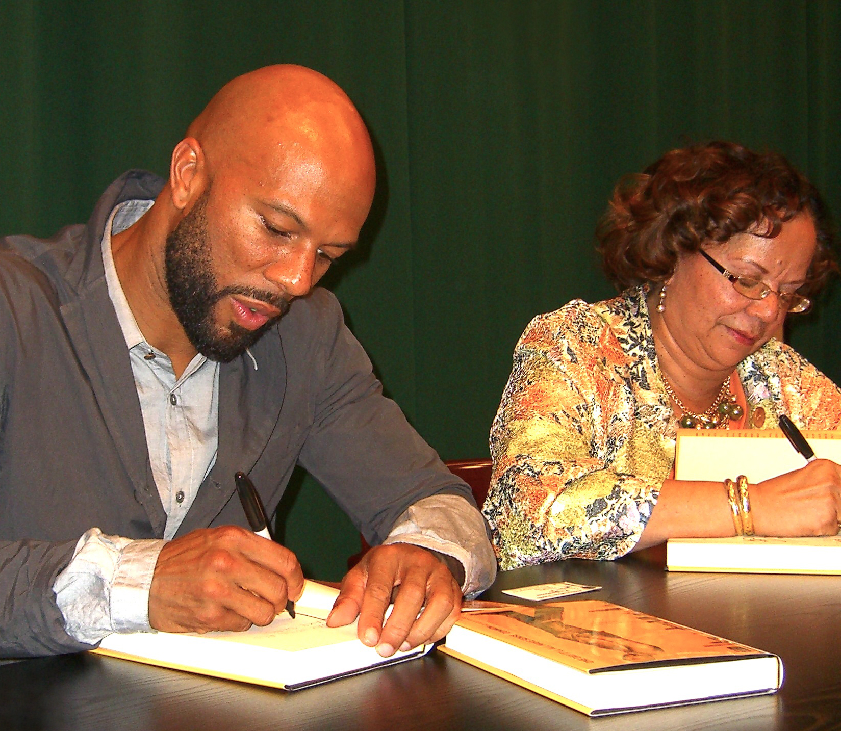 Hip-hop artist and actor Common at a signing for his 2011 memoir, One Day It'll All Make Sense, held at the Tribeca Barnes & Noble in Manhattan on the day of the book's release, September 13, 2011. Beside him is his mother and manager, Dr. Mahalia Ann Hines, whom Common credits for his success. Hines is featured prominently in the book, and was present on the dais during the audience Q&A that preceded the signing. Photographed by Luigi Novi. This photo is not in the public domain. It may, however, be used, modified and published for any purpose, free of charge, only if the photographer is properly credited, either by linking the photograph to this page, or with an easily visible credit to the photographer placed near the photo in each instance in which it is used. (See licensing information below.) Publication of this photo without this proper attribution constitutes copyright infringement. If you have any questions, you can contact me on my Wikipedia Talk Page.